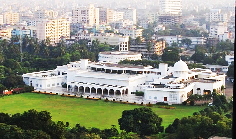 An aerial view of Bangabhaban (the official residence of the President of Bangladesh) in Dhaka.